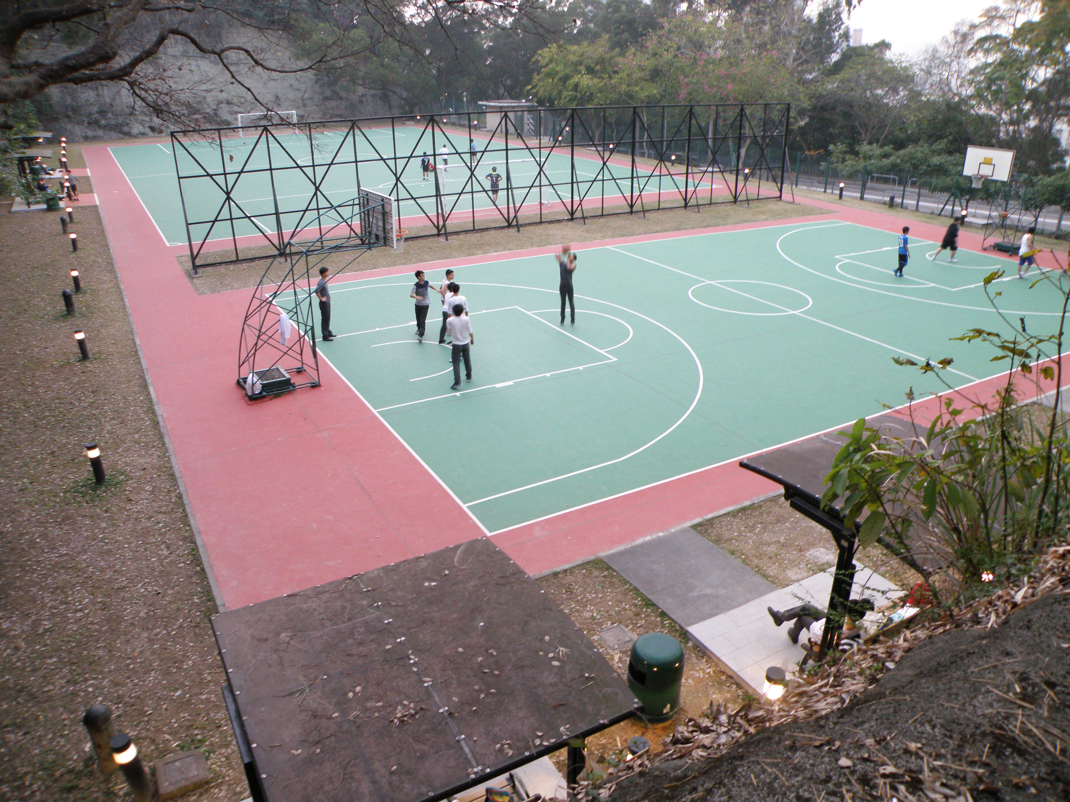 North Point Service Reservoir Playground in Braemar Hill, Hong Kong.